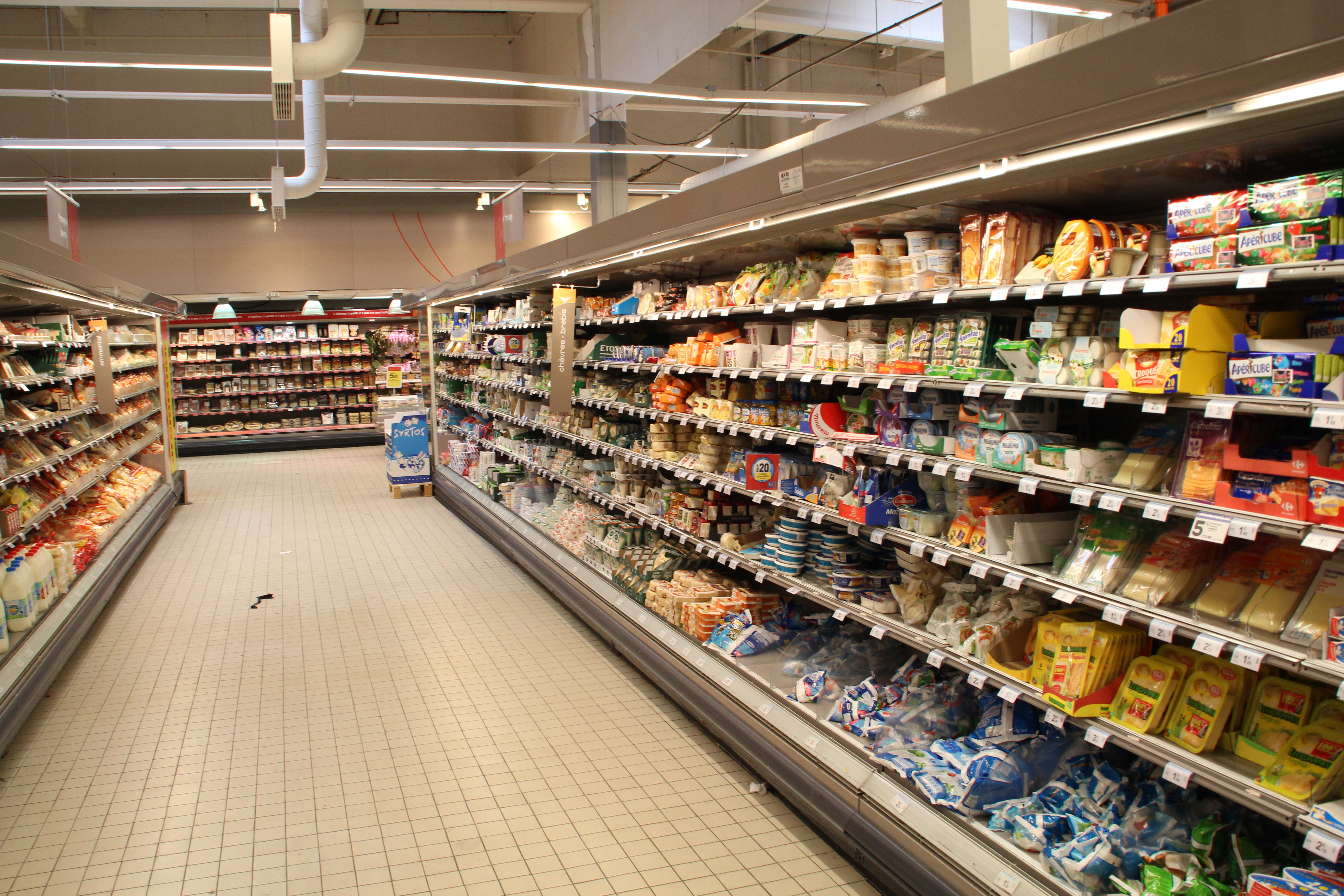 Supermarket Carrefour Market in Voisins-le-Bretonneux, France.